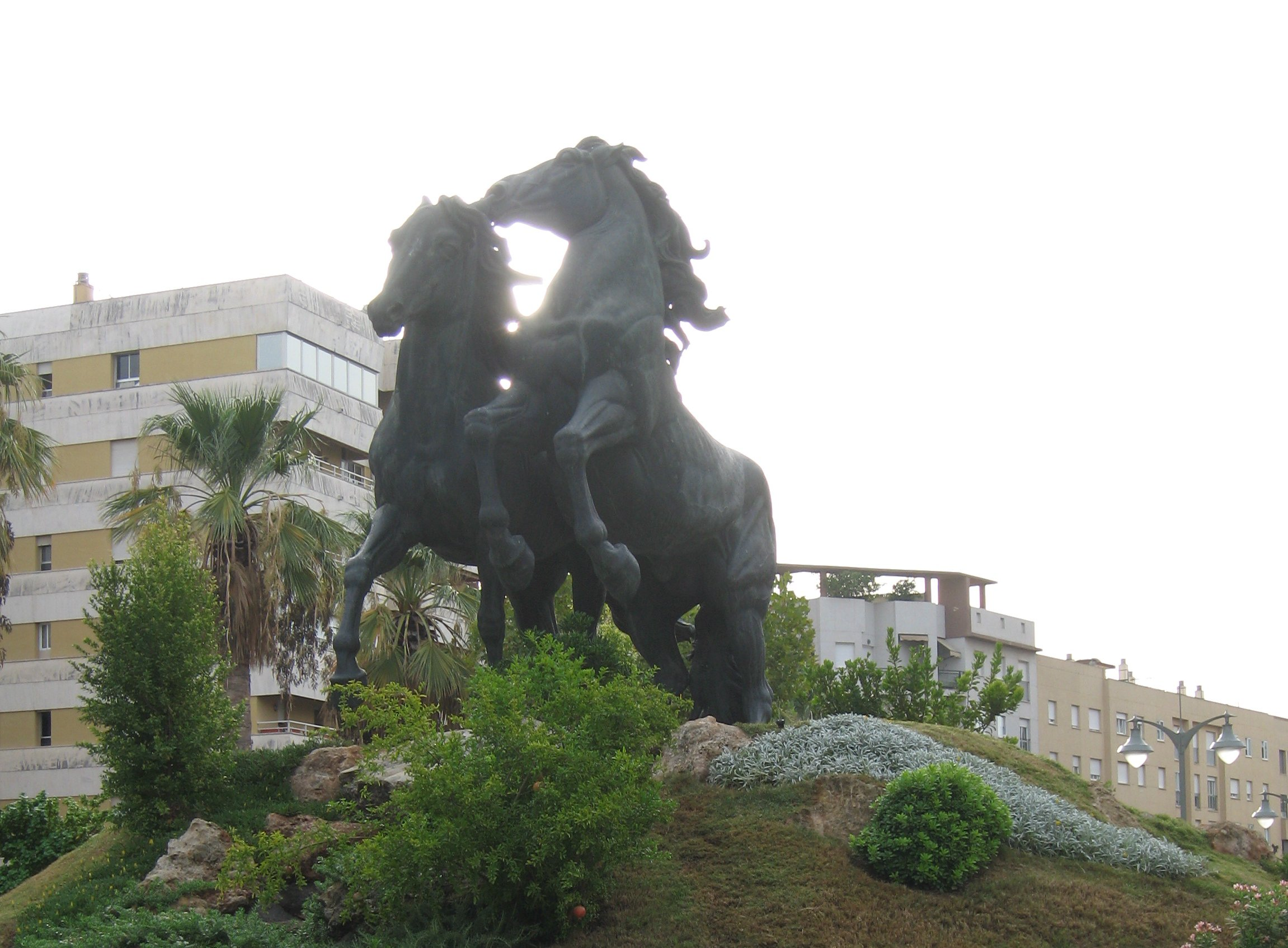 Monument to the horse, Plaza del Caballo, Jerez (Spain)